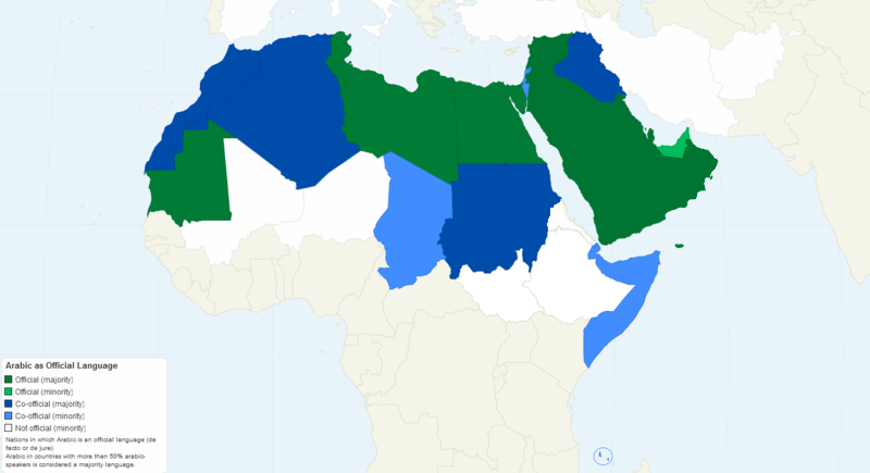 Nations in which Arabic is an official language (de facto or de jure). Arabic in countries with more than 50% arabic-speakers is considered a majority language, otherwise it is a minority language. Sources: for working out the percentage of arabic speakers in the country. for the official status of Arabic in each country. for creation of man